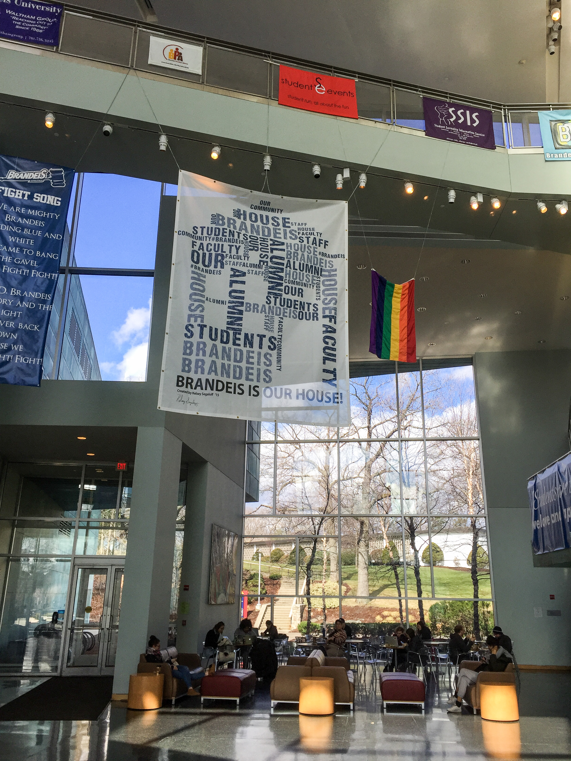 Shapiro Campus Center, Brandeis University, Waltham, Massachusetts.